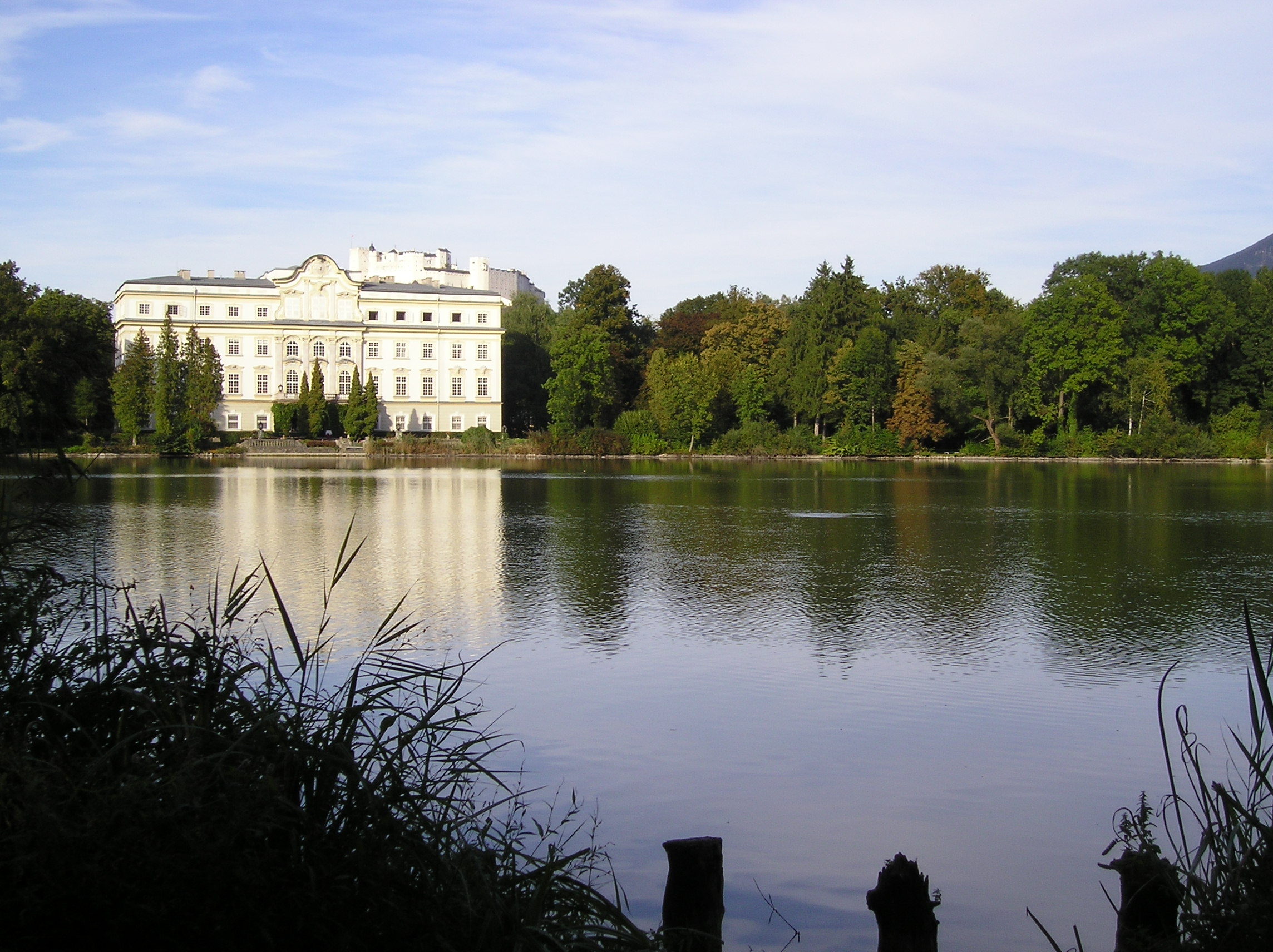 View of the Leopoldskorn Castle and the Leopoldskroner Weiher in the city of Salzburg. In the background, the Salzburg fortress can be seen.